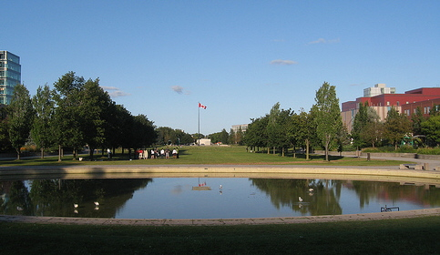 The Harry W. Arthurs Common